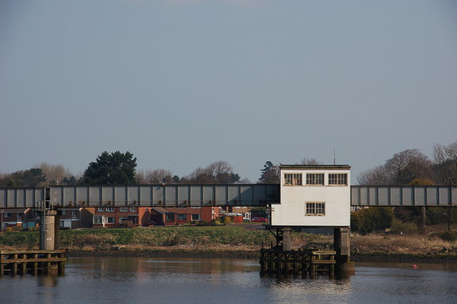 Railway bridge, Coleraine The present bridge, carrying the Belfast (to the right) – Londonderry railway across the River Bann, opened in 1924 replacing an earlier bridge slightly further upstream. It is 800 ft long and has eleven spans. It cost £100,000. The span to the left of the operating house lifts to allow ships to pass. Continue to 1912187.